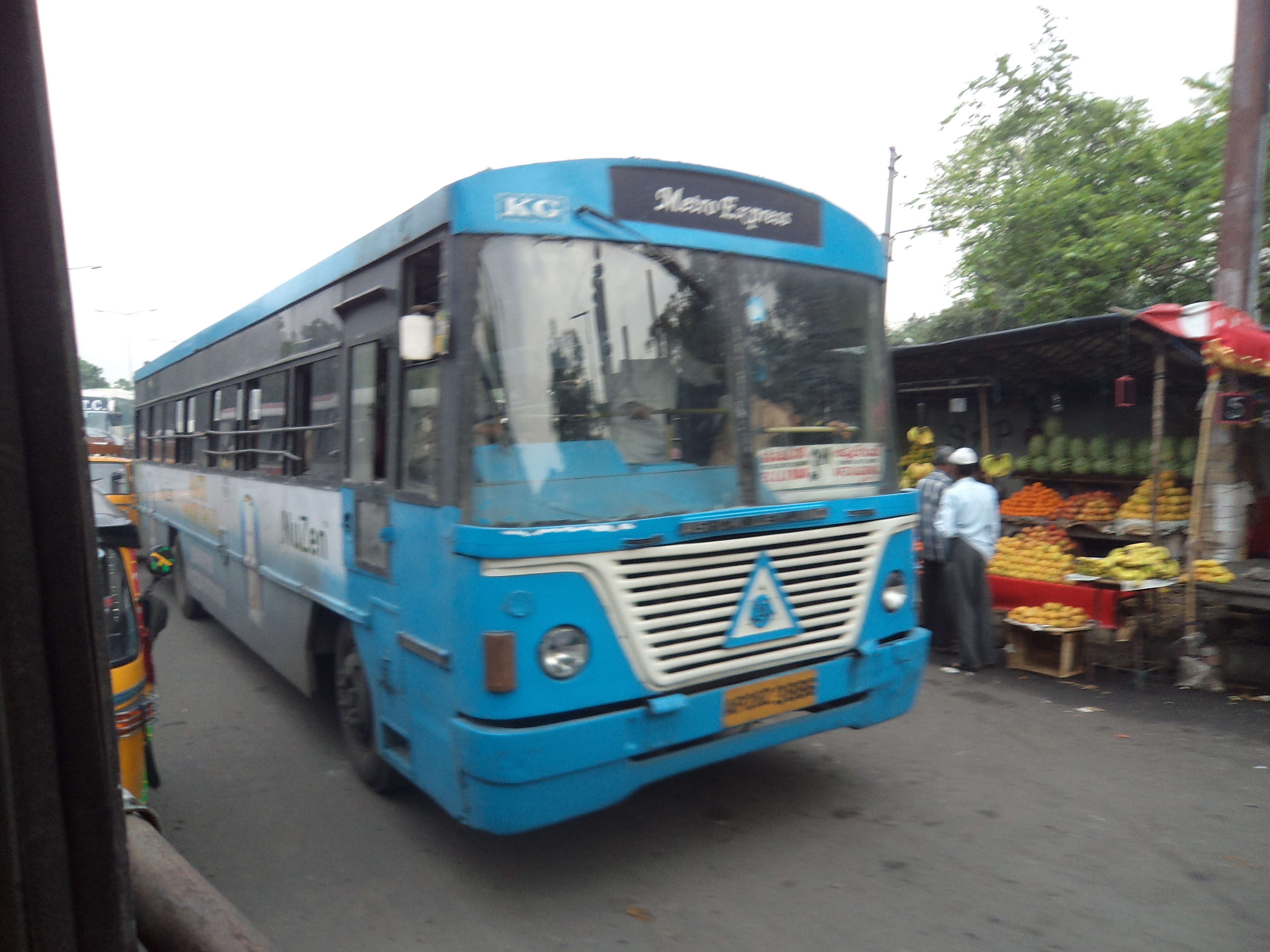 A Metro Express category bus of Hyderabad City Bus.